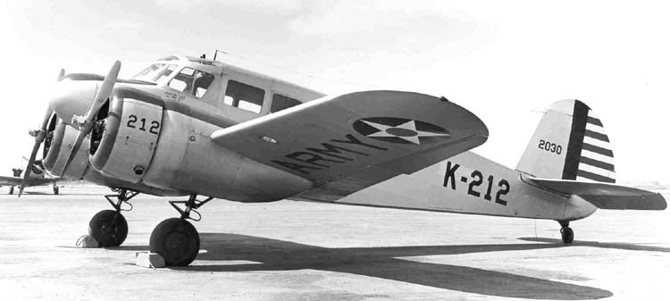 Cessna AT-17 (AC 42-30) from Stockton Field. Photo taken at Mather Field on May 9, 1942.